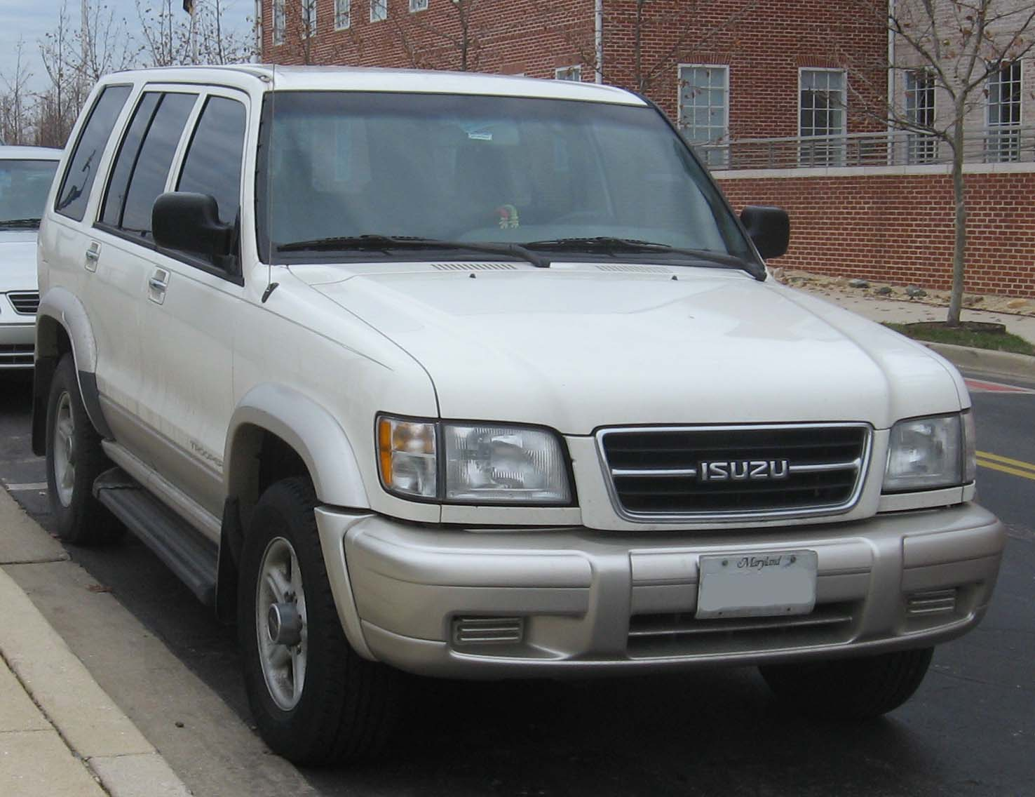 1998-1999 Isuzu Trooper photographed in College Park, Maryland, USA.